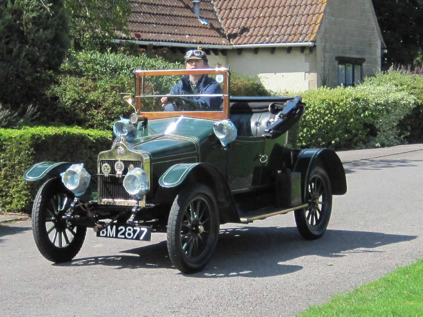 1913 Standard Model S 9.5HP Rhyl 2-seater tourer VCC Cricklade source of information